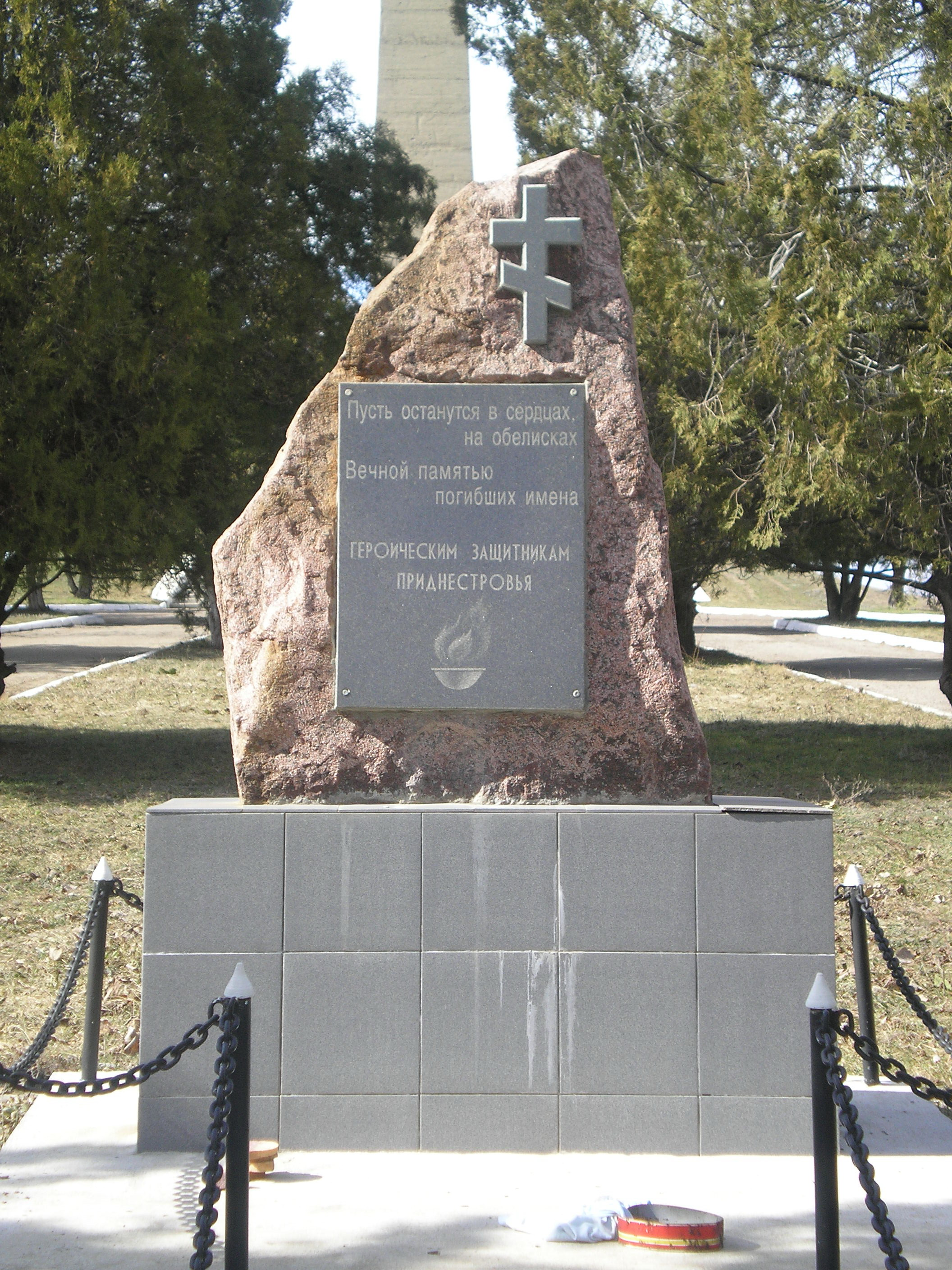 Monument to defenders of Transnistria in Kitskany village, Slobodzea District, Transnistria.